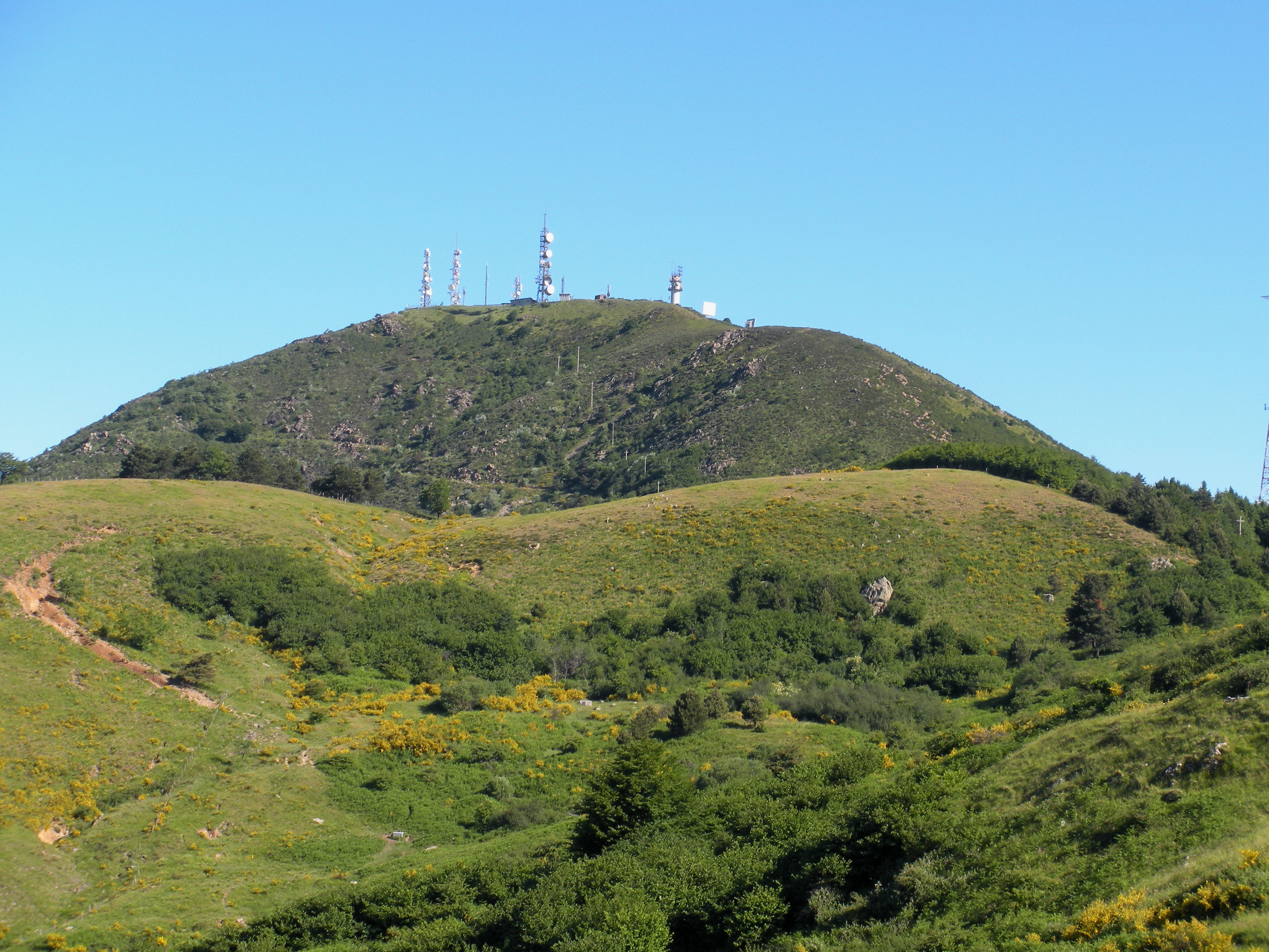 Campomorone, province of Genoa, Italy, mount Leco seen from Bocchetta Pass